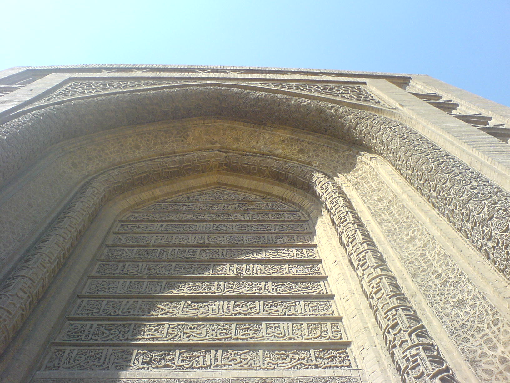 Mustansiriya school, main entrance